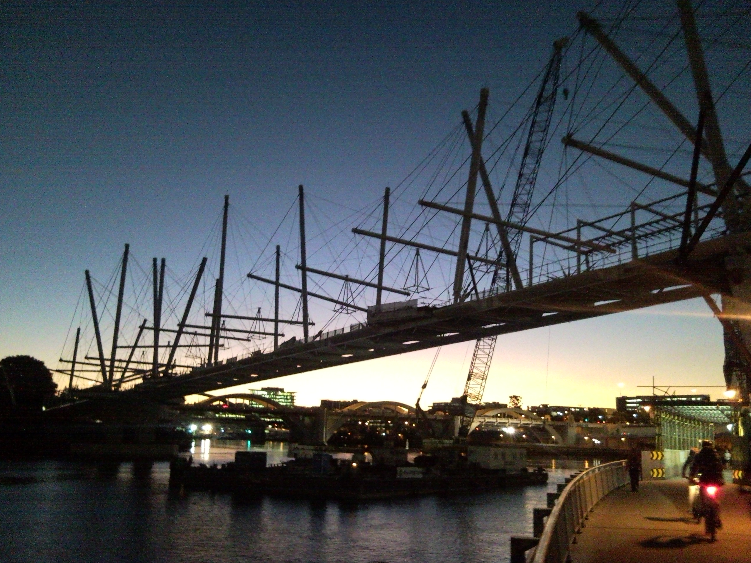 Photographer: Paul Guard